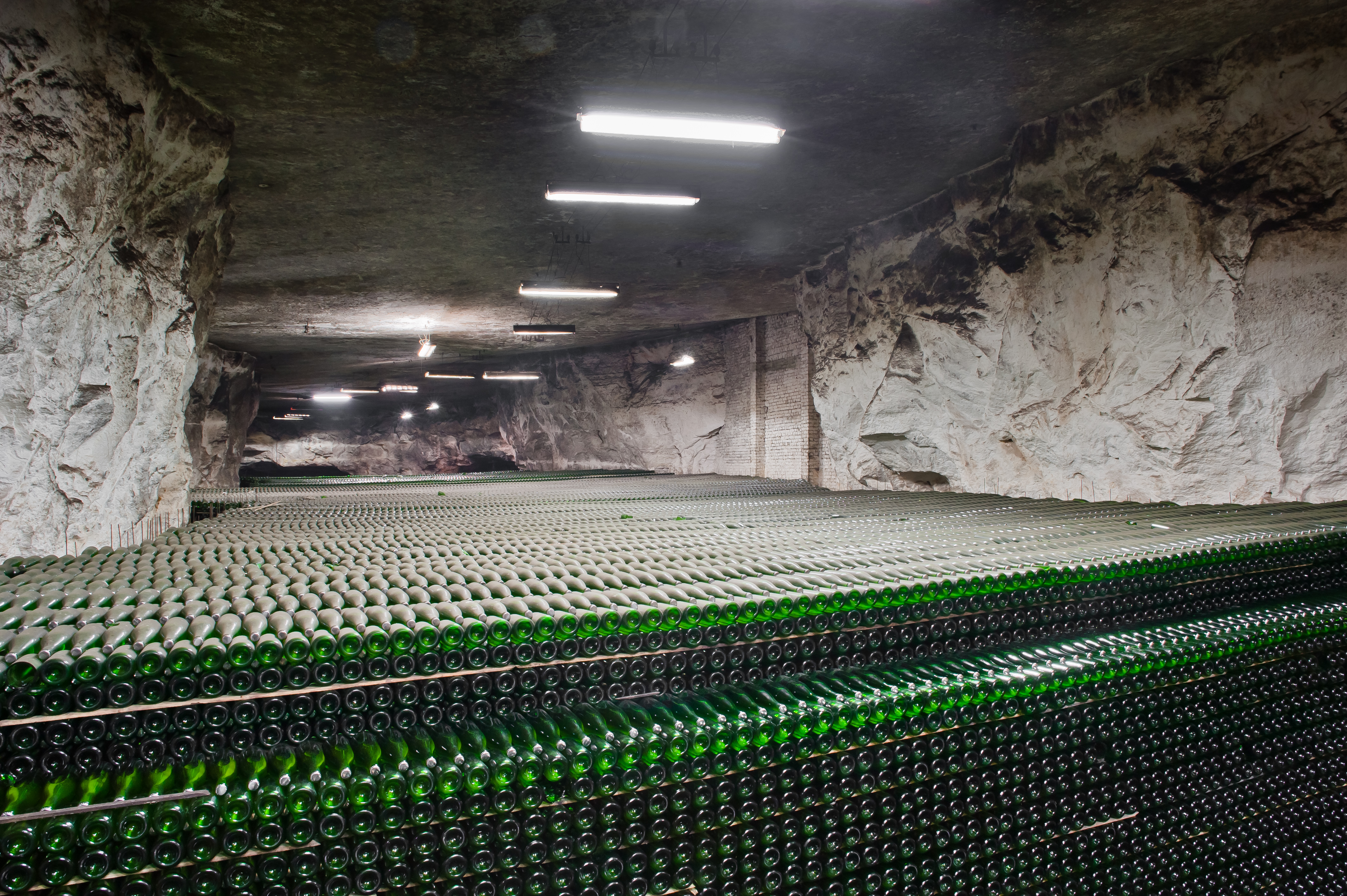 Own production of sparkling wine Artwinery